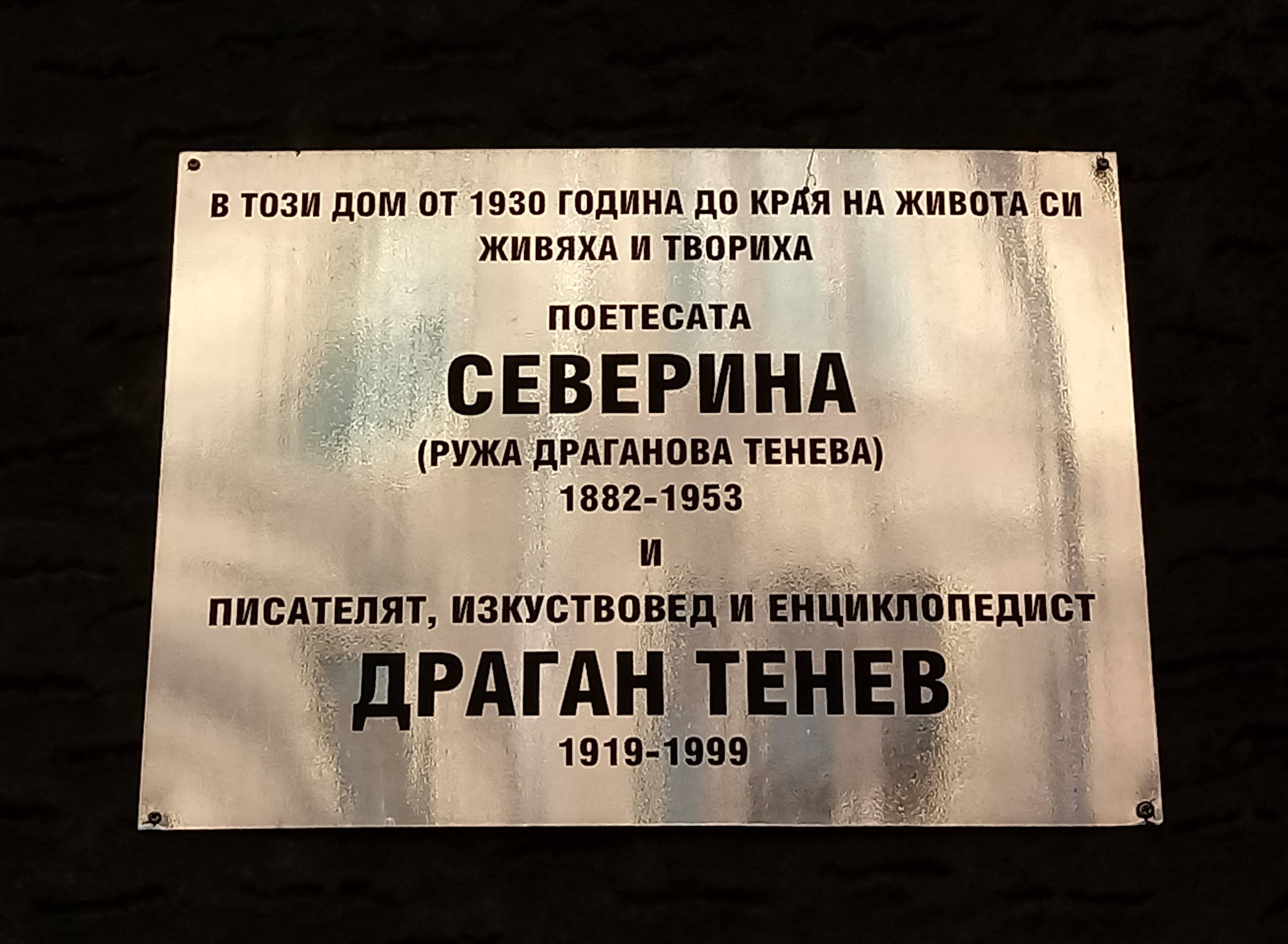 Ruzha Teneva - Severina and Dragan Tenev memorial plaque, Tsar Ivan-Asen II Str., Sofia